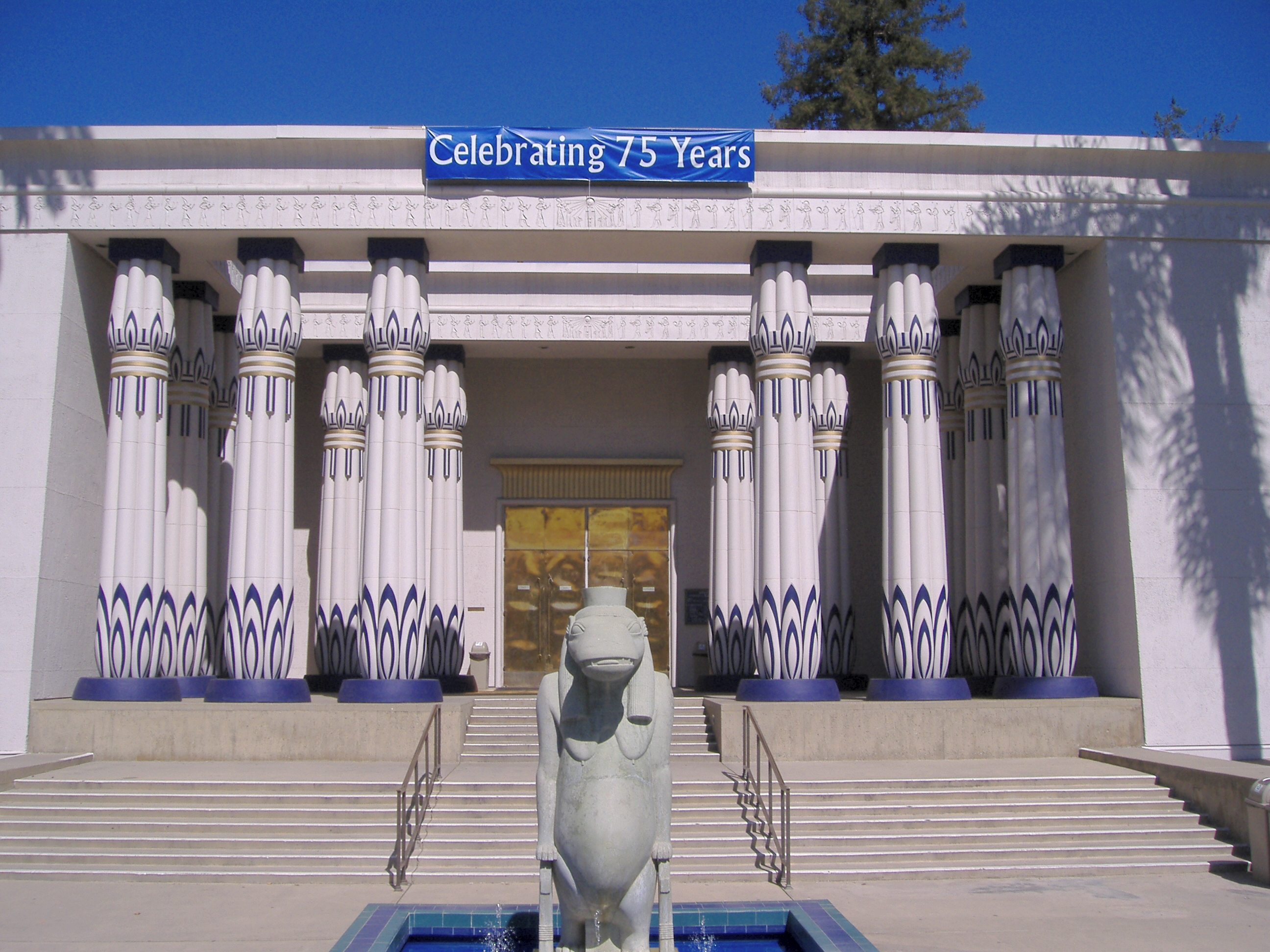 View of the front of AMORC's Rosicrucian Egyptian Museum in San Jose, California.